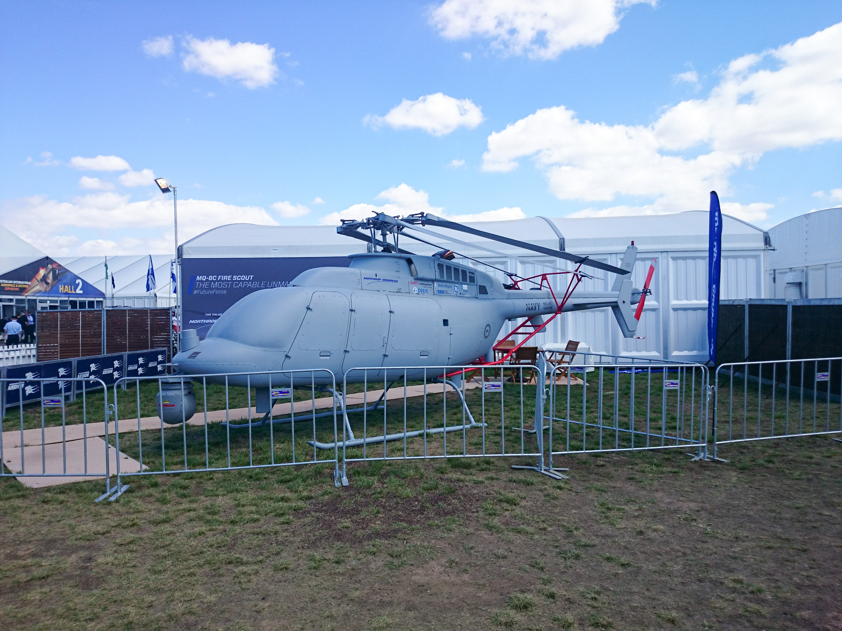 Northrop Grumman MQ-8 Fire Scout on display at the 2015 Australian International Airshow